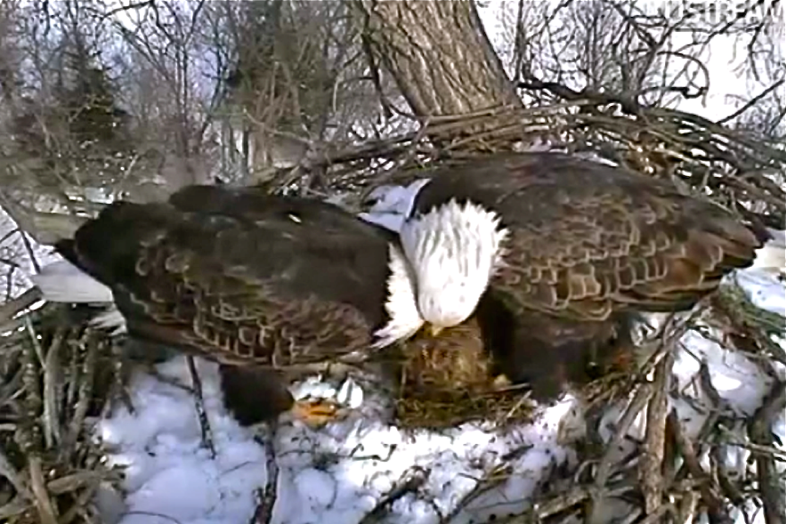 Screenshot from Ustream.tv Decorah eagle parents in pre-mating ritual